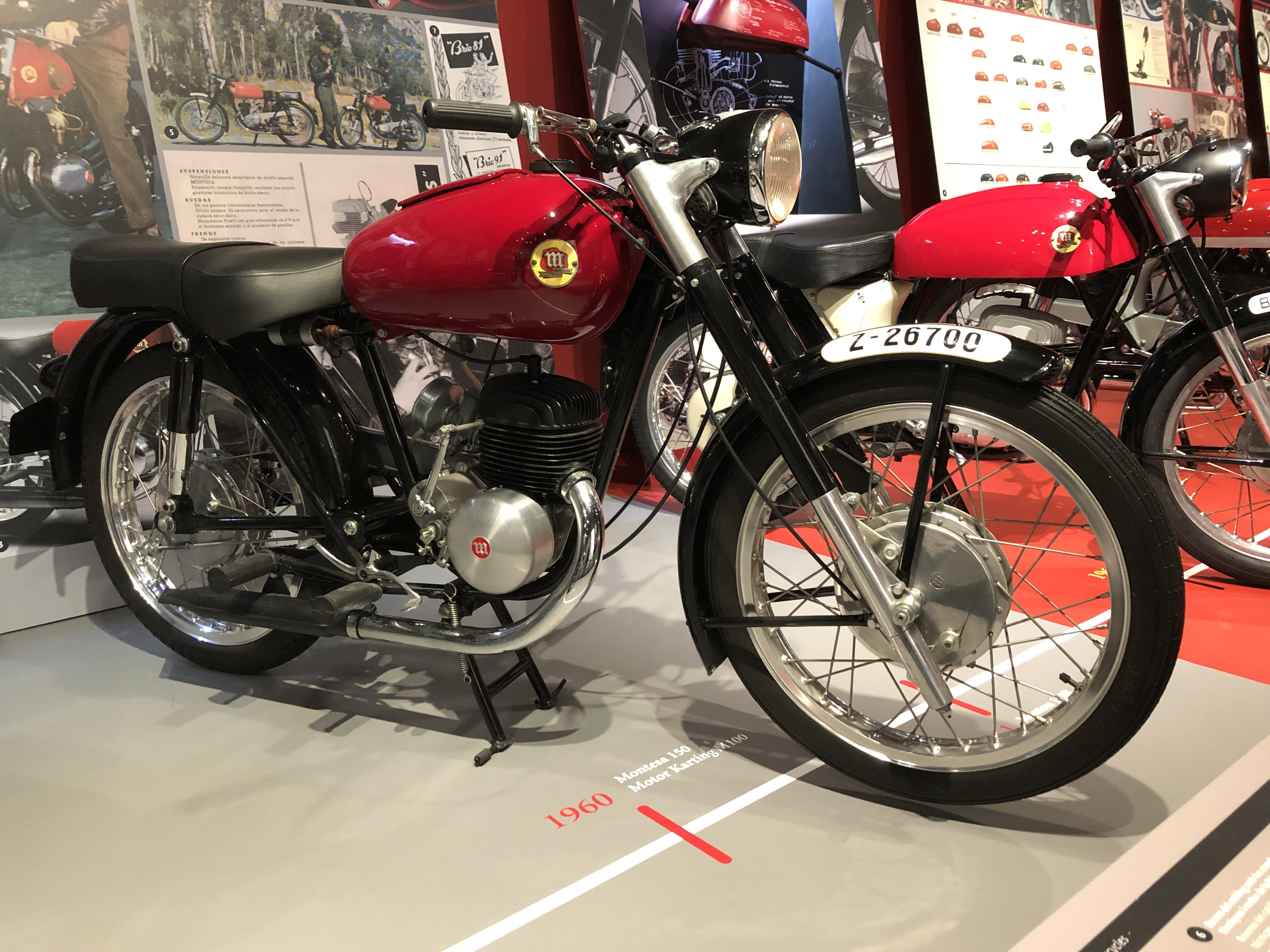 Montesa Brio 110 S "Monotubo" (1961), Mod. MB, 124.9 cc